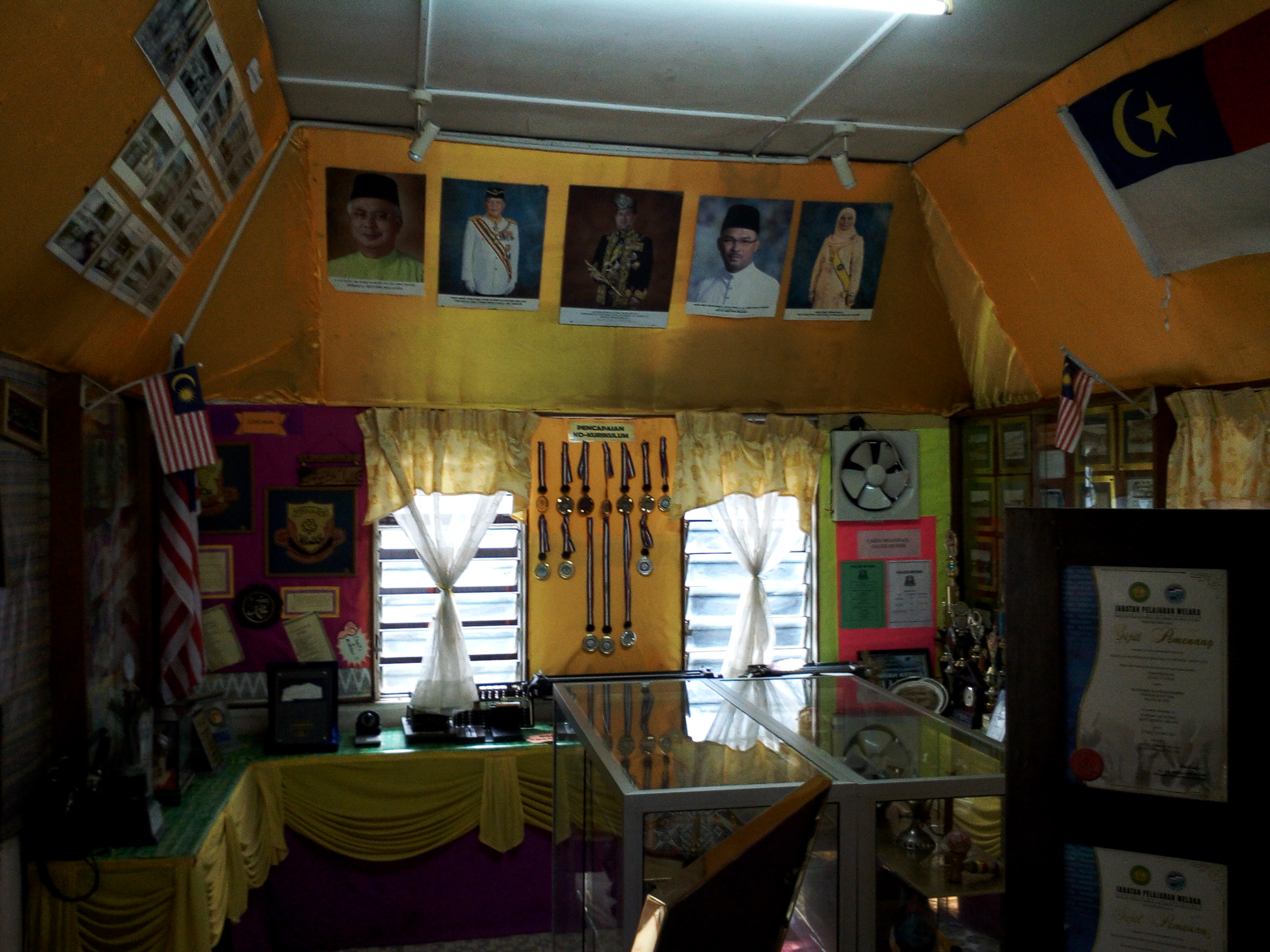 Sudut Ruangan Galeri Warisan